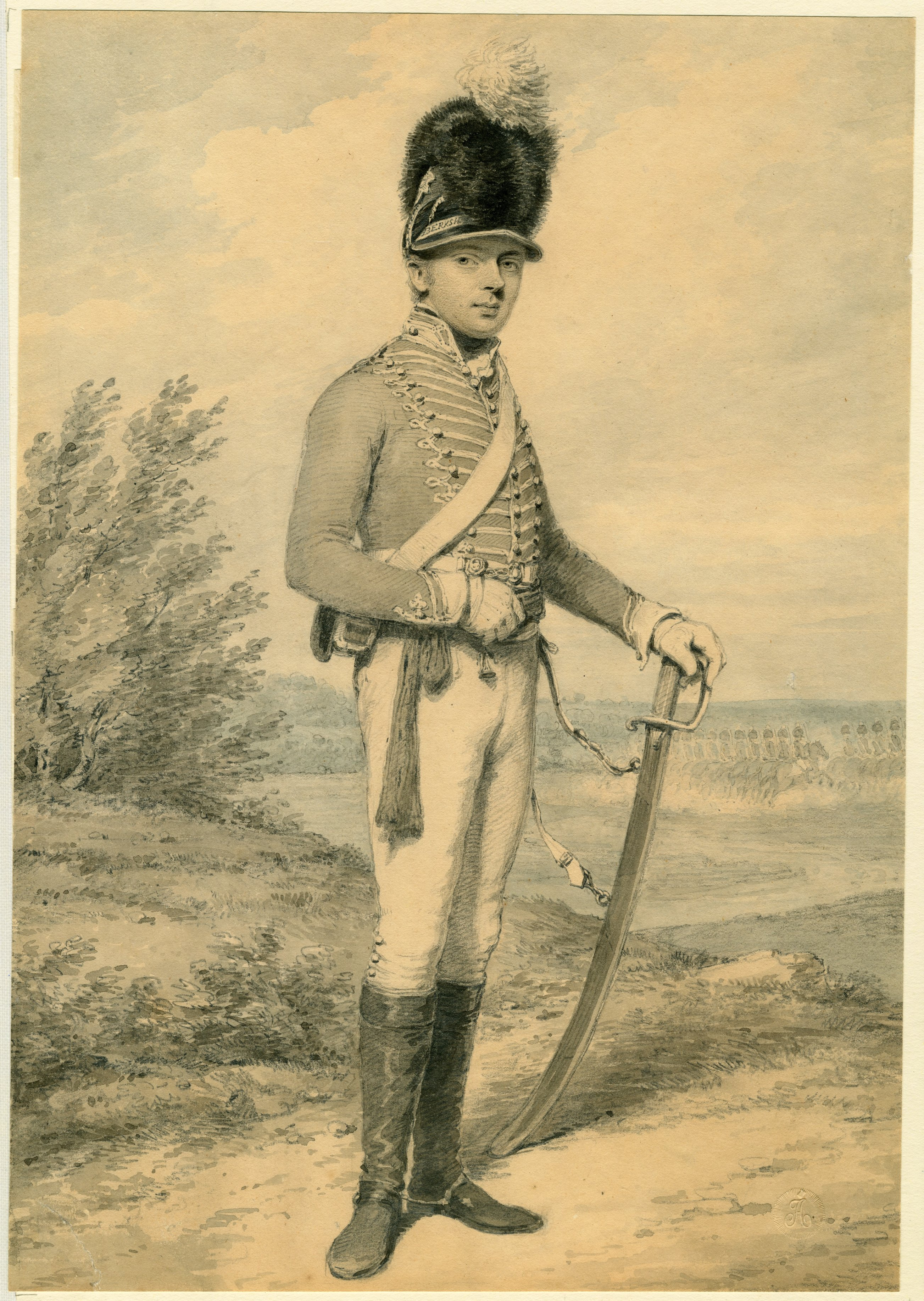 Major William Hallett of the Berkshire Provisional Cavalry, 1800 by H.Eldridge.